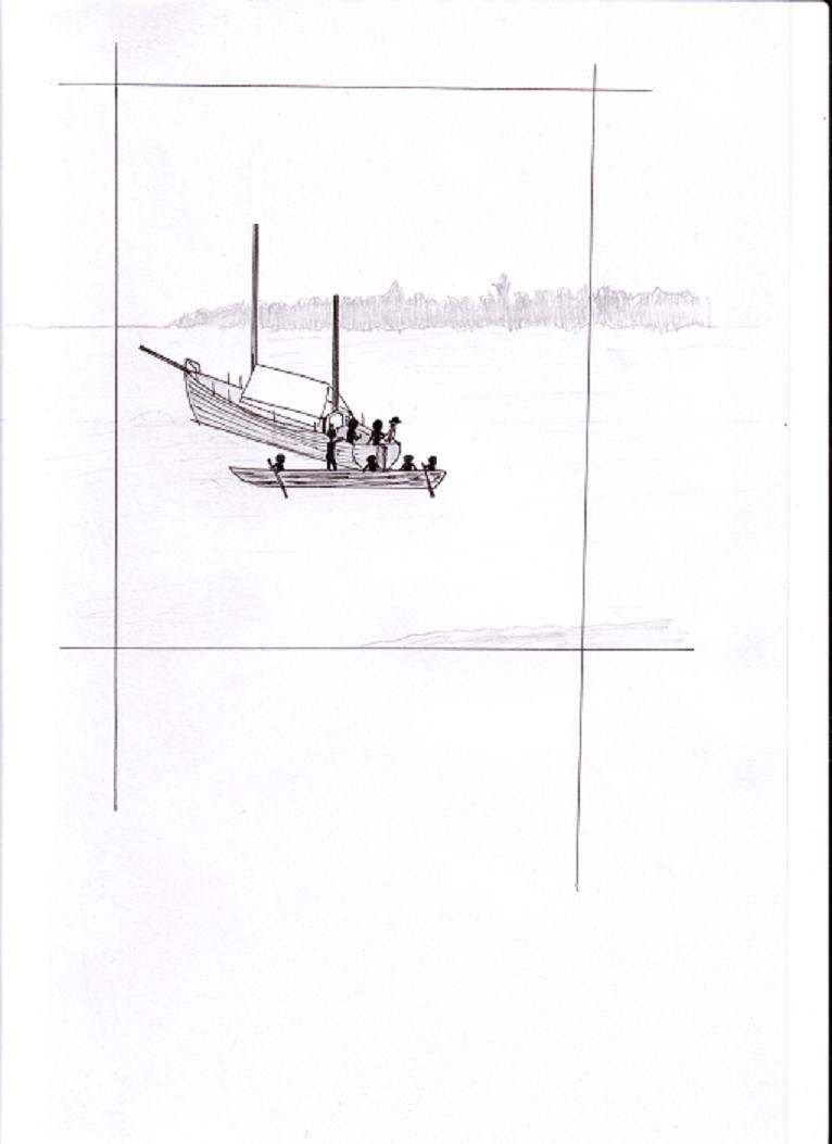 "Thomson time" : Indigenous Australians have come in a canoa to visit their friend Donald Thomson in his ketch anchored near Cape York coast. From an old photo.